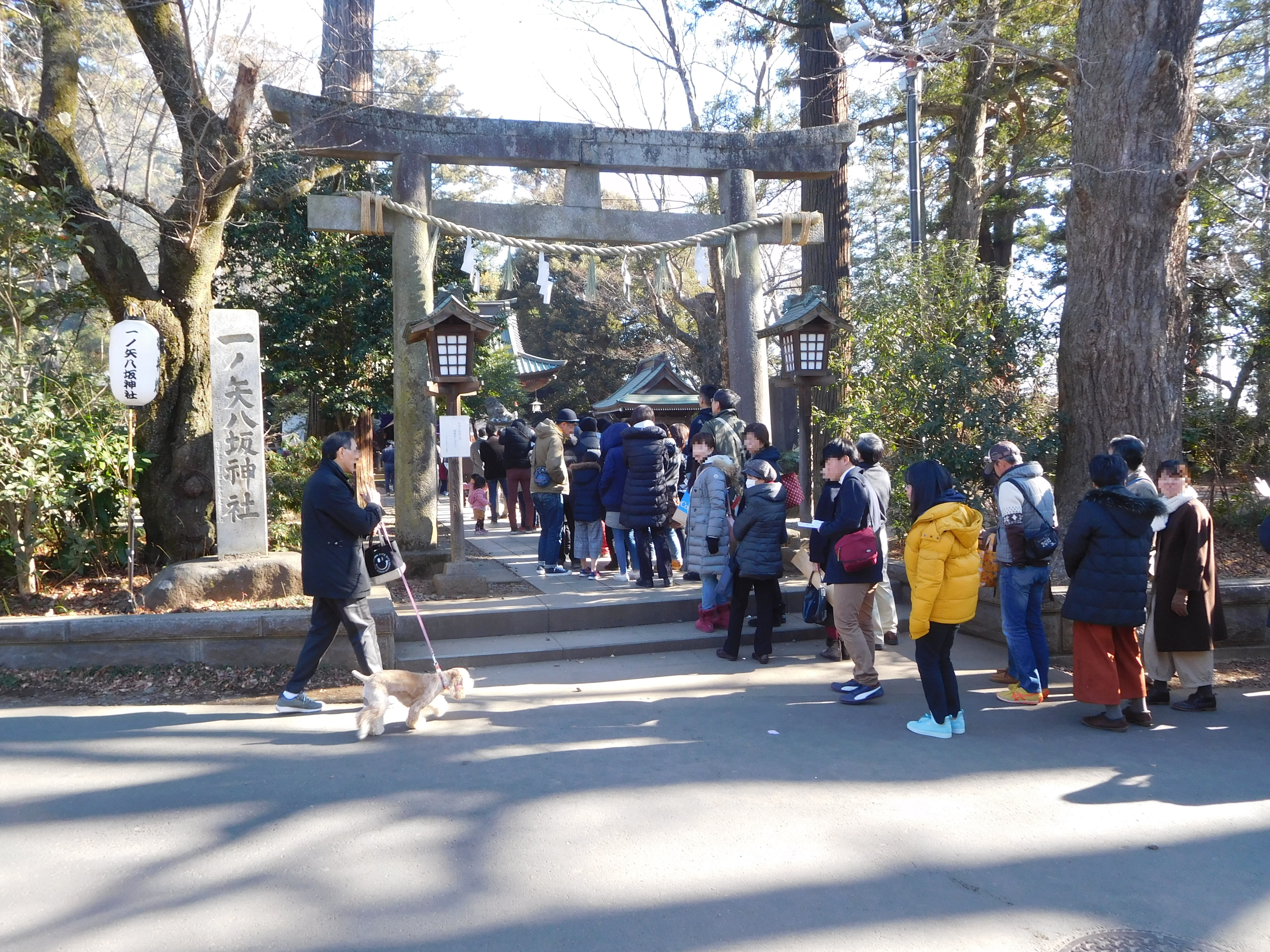 People in line for Hatsumōde. It was taken at Ichinoya Yasaka shrine, Tsukuba, Ibaraki, Japan.